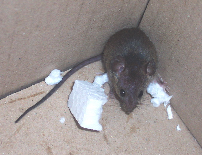 Mus musculus trapped in a box, Bogor, West Java, Indonesia